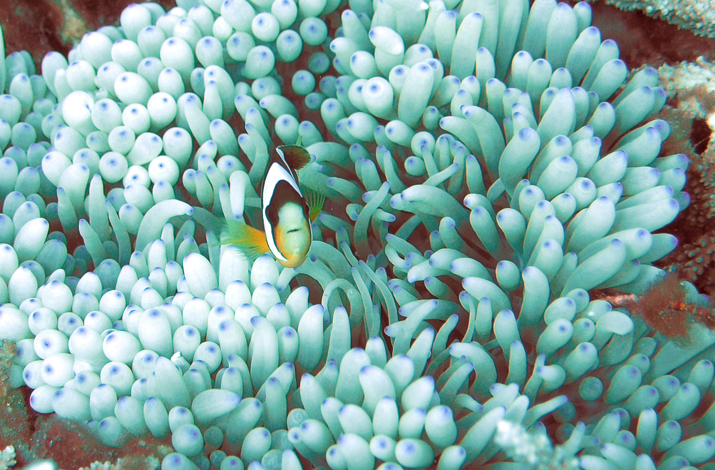 scuba diving near Swallow Reef (Pulau Layang-Layang) in Spratly Islands, South China Sea